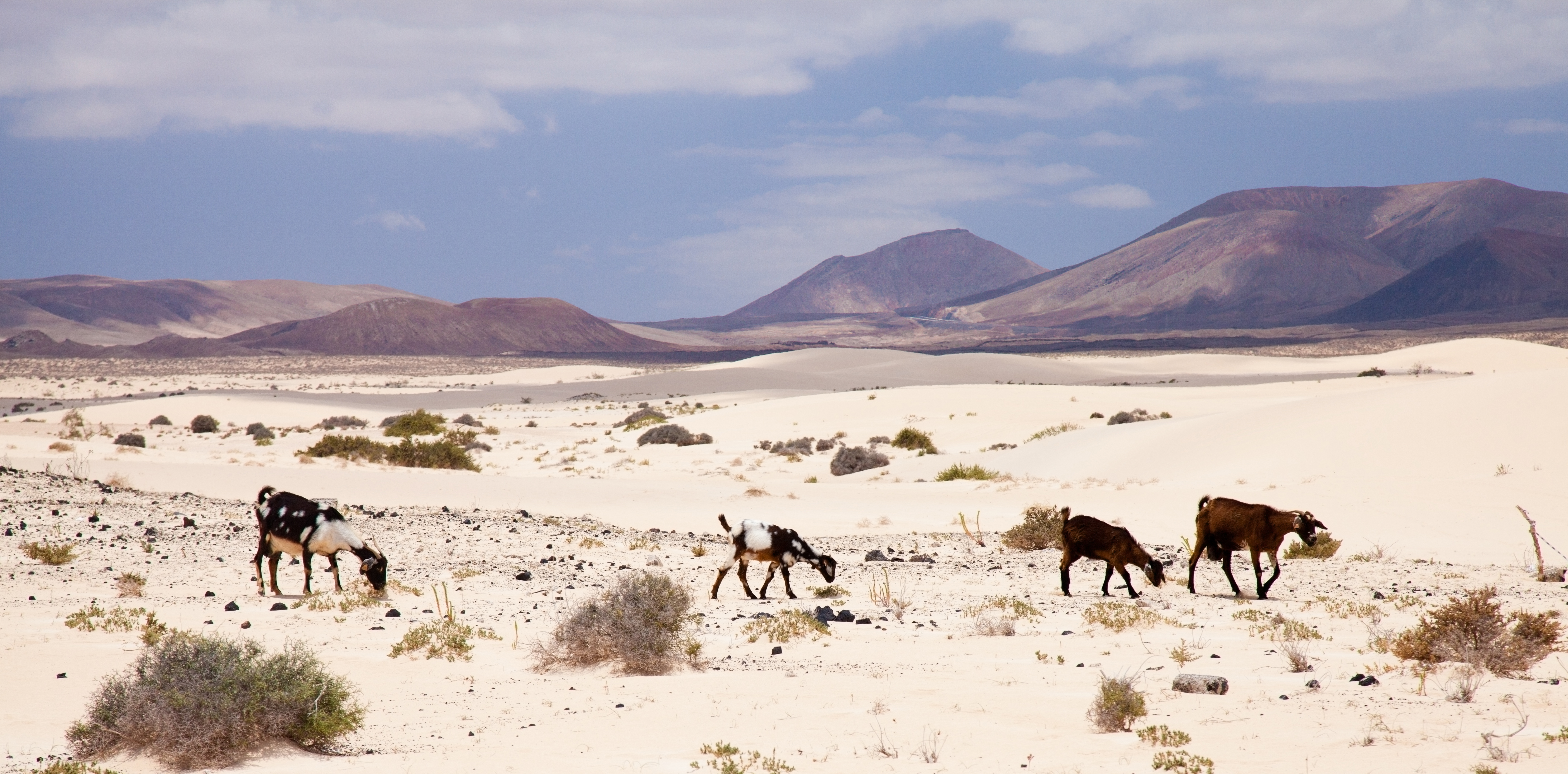 Goats foraging for food in the dunes of Fuerteventura This is a photography of a Special Area of Conservation in Spain with the ID: ES7010032. Natura2000 entry, EEA entry